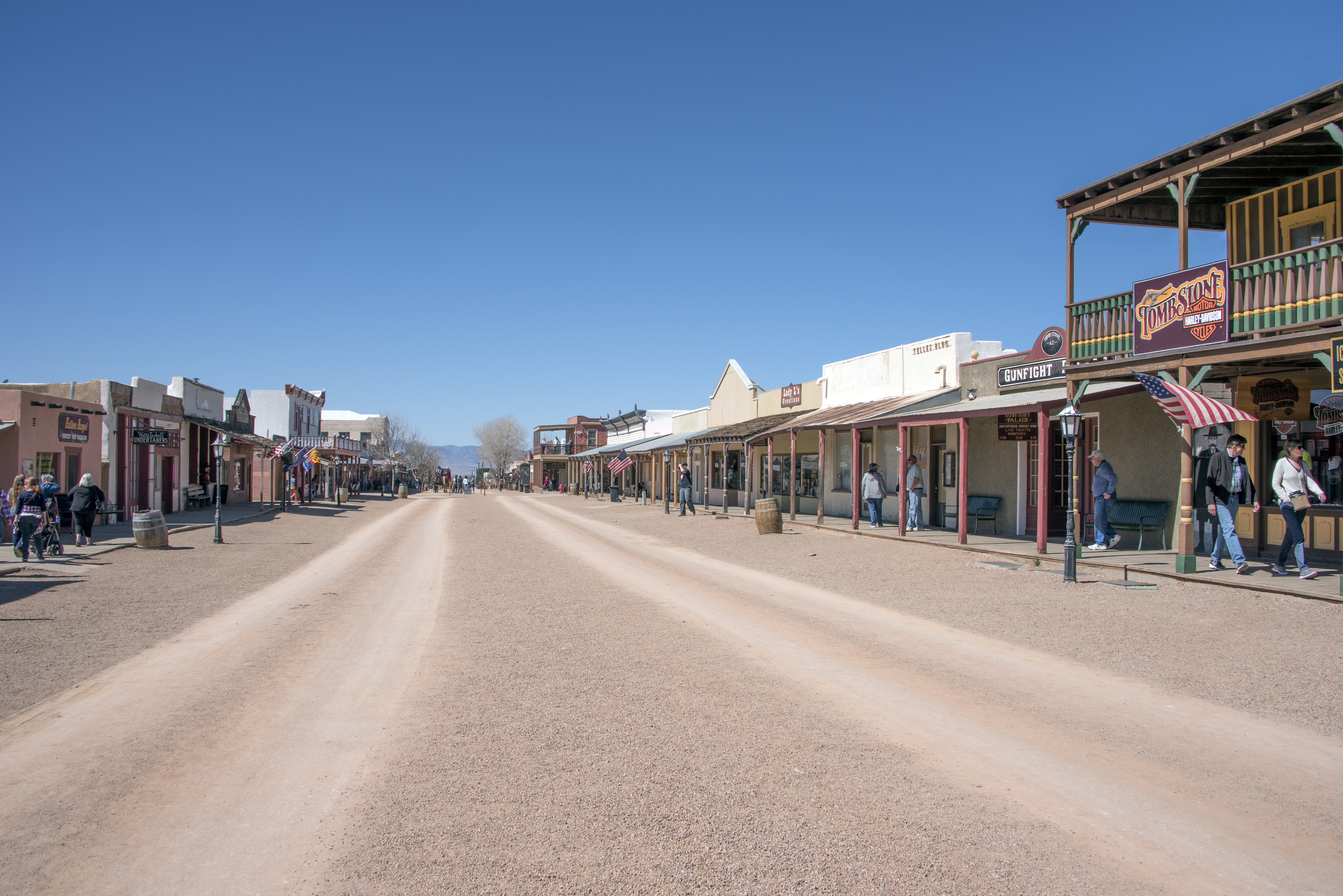 Tombstone Historic District, with the Main Street.